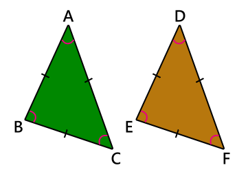 If triangle ABC is congruent to triangle DEF.